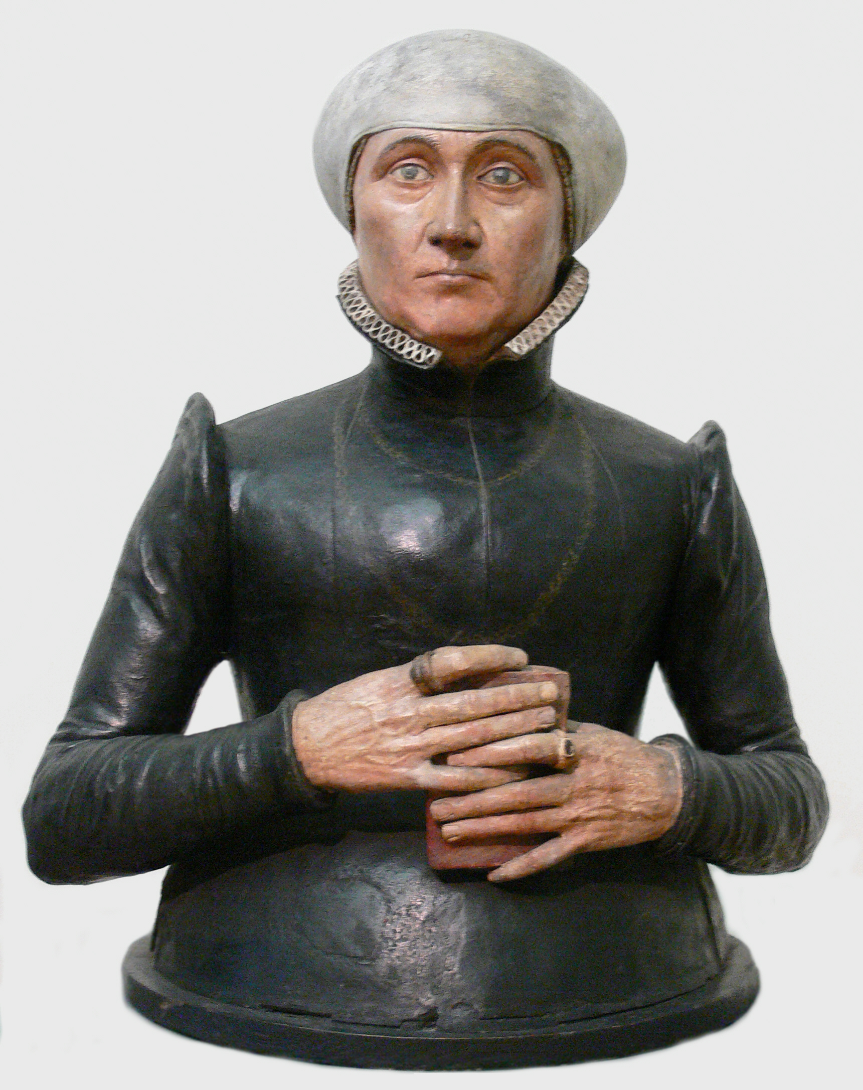 Johan Gregor van der Schardt: Bust of Anna Imhoff, Nuremberg c. 1480, terracotta, original colour. Skulpturensammlung (inv. no. 539, acquired in 1858, Alexander von Minutoli collection), Bode-Museum Berlin.